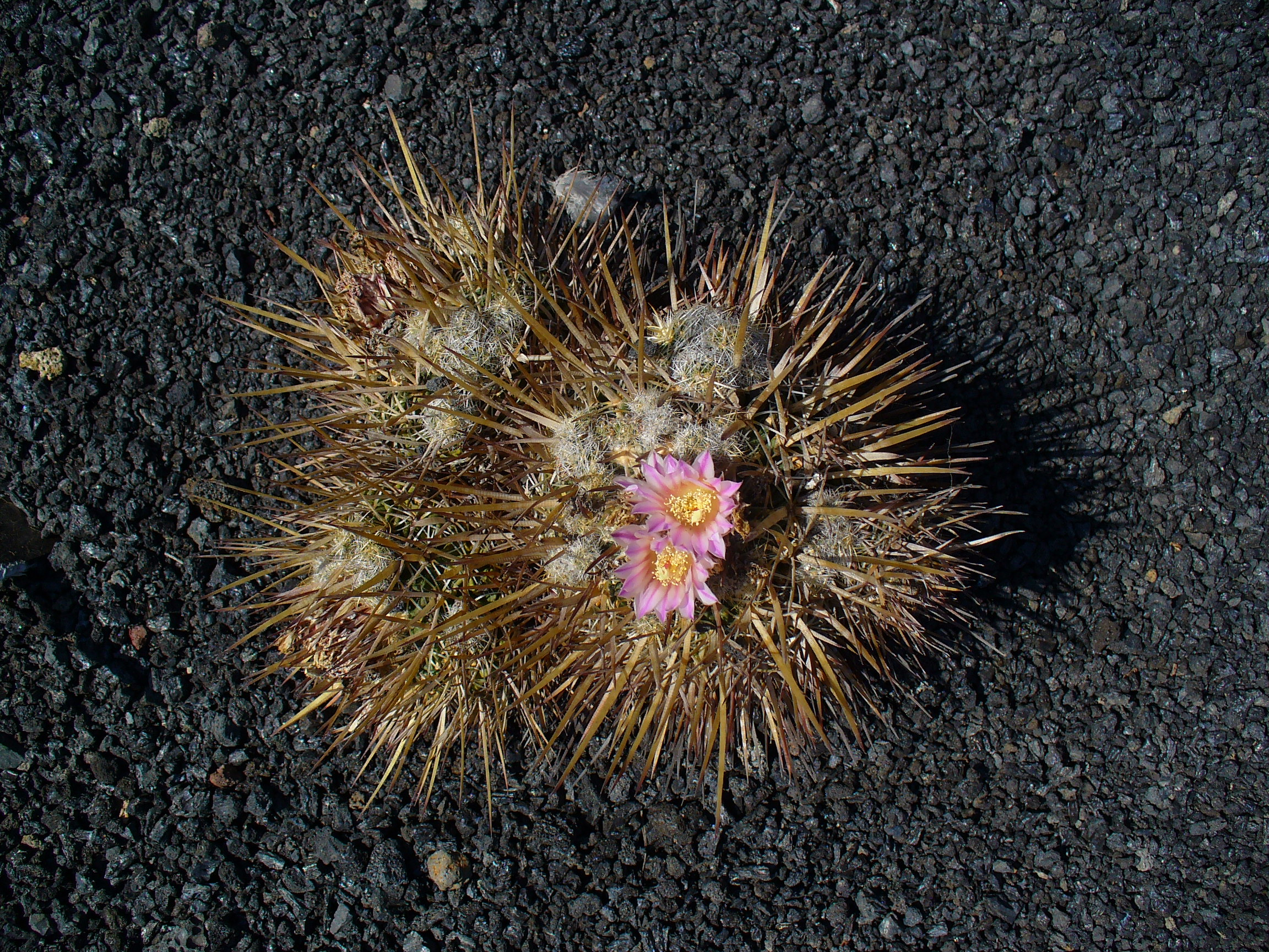 Habitus; Jardin de Cactus, Guatiza, Lanzarote, Canary Islands, Spain.